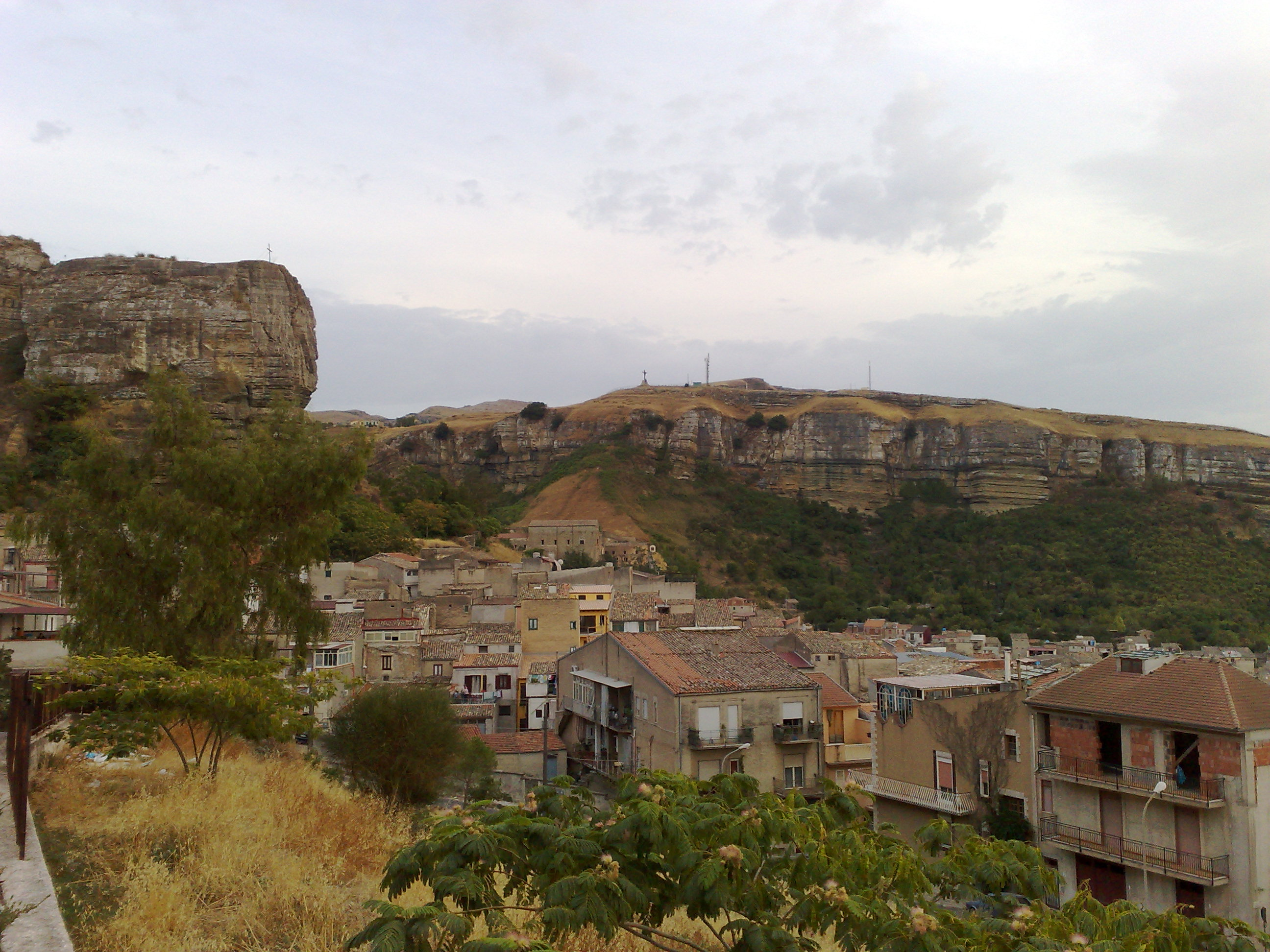 Corleone (Palermo): landscape